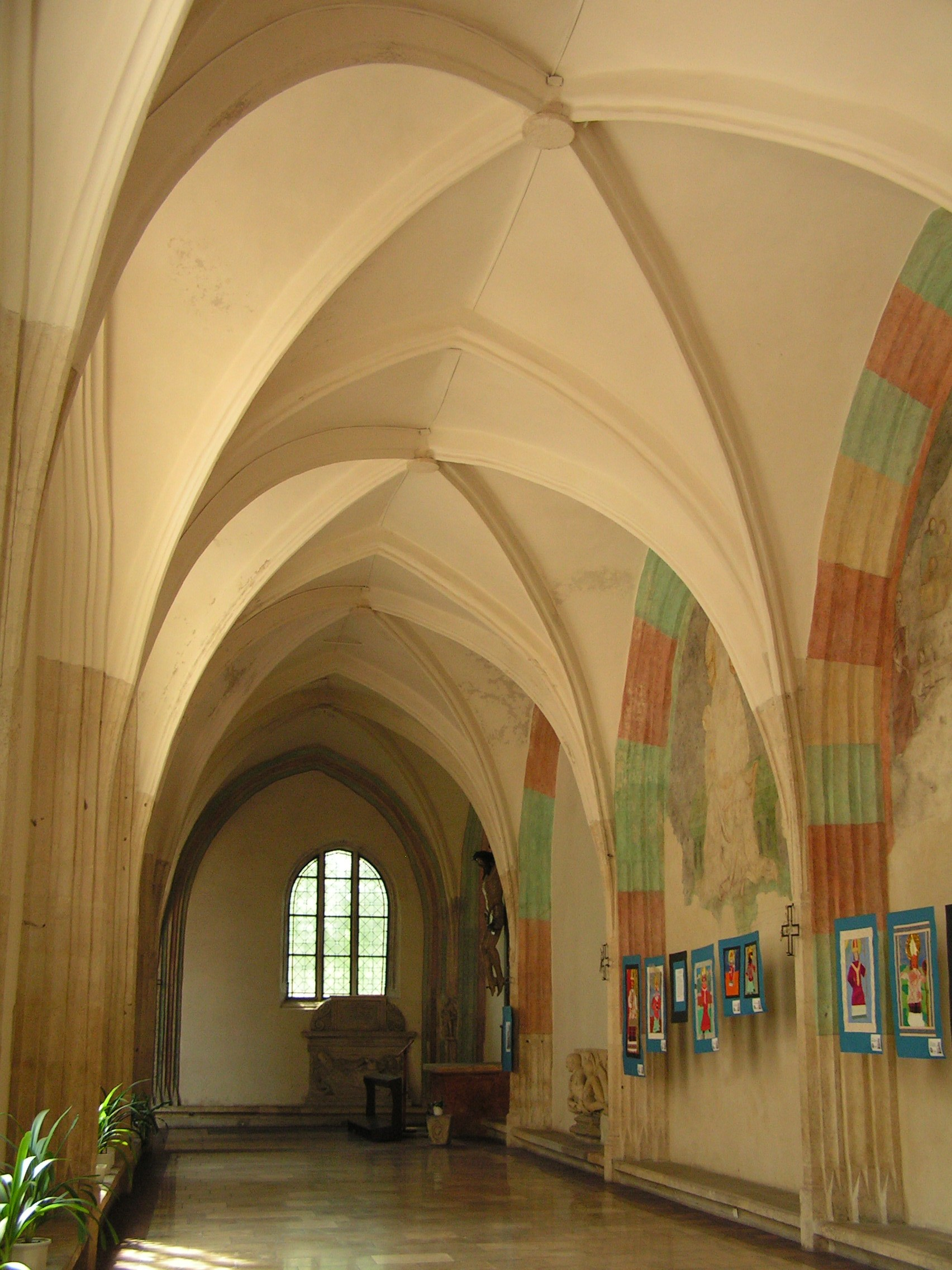 Quadripartite cross-ribbed vaults, church of St. Catherine in Kraków, Poland